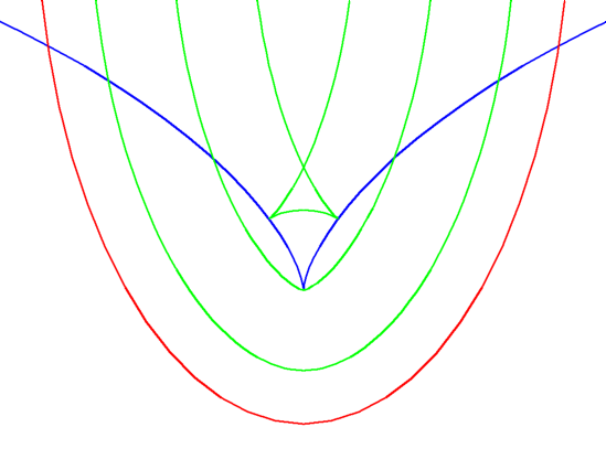 An ellipse(red), its evolute (blue) and parallel curves showing cusps where they cross the evolute. an ellipse its evolute parallel curves